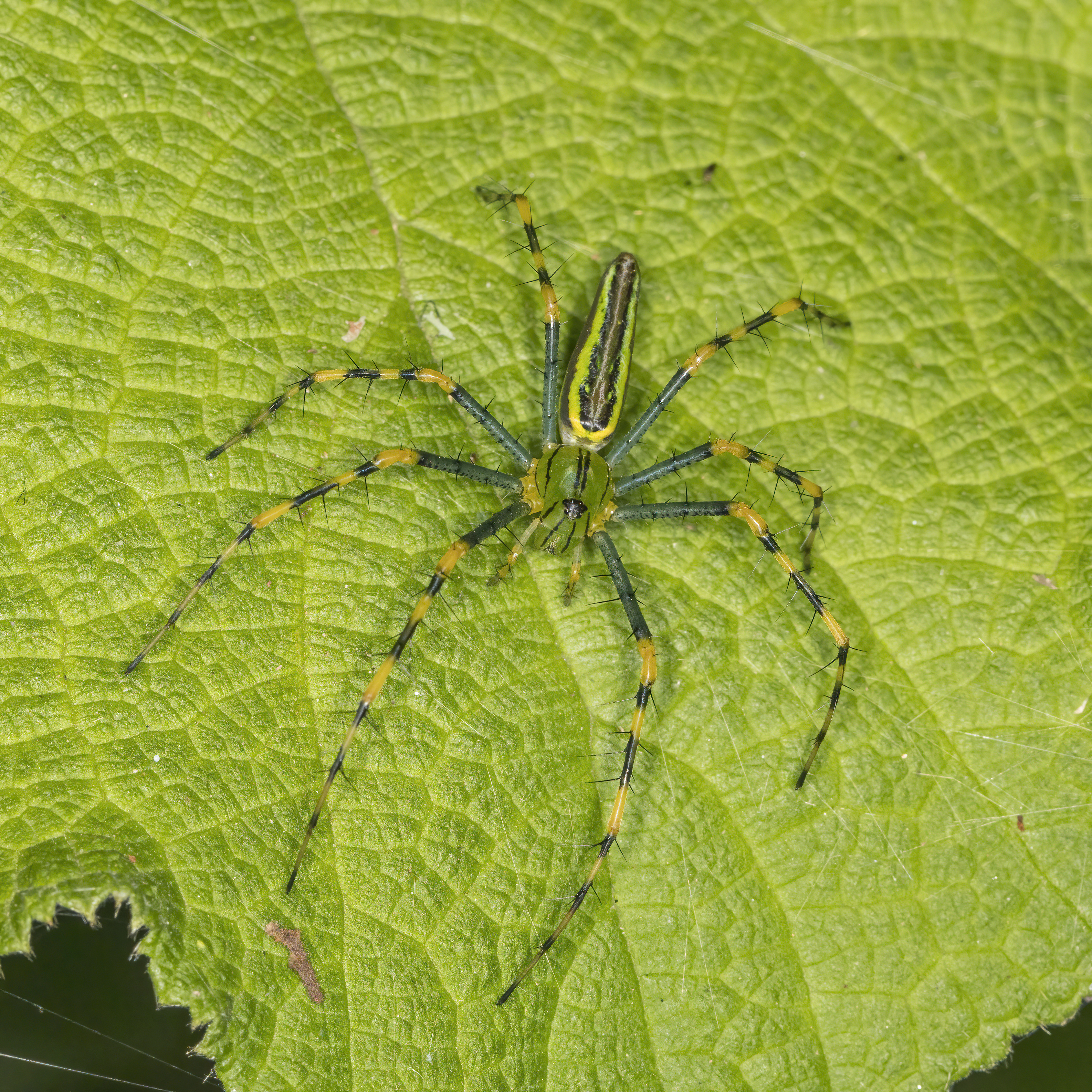 Malagasy green lynx spider (Peucetia madagascariensis) male, Andasibe, Madagascar